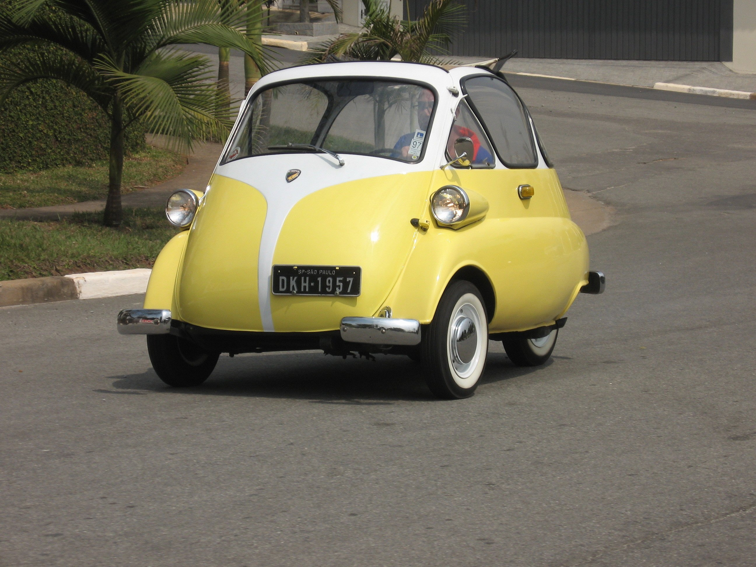 Brazilian made Romi-Isetta, model year 1957